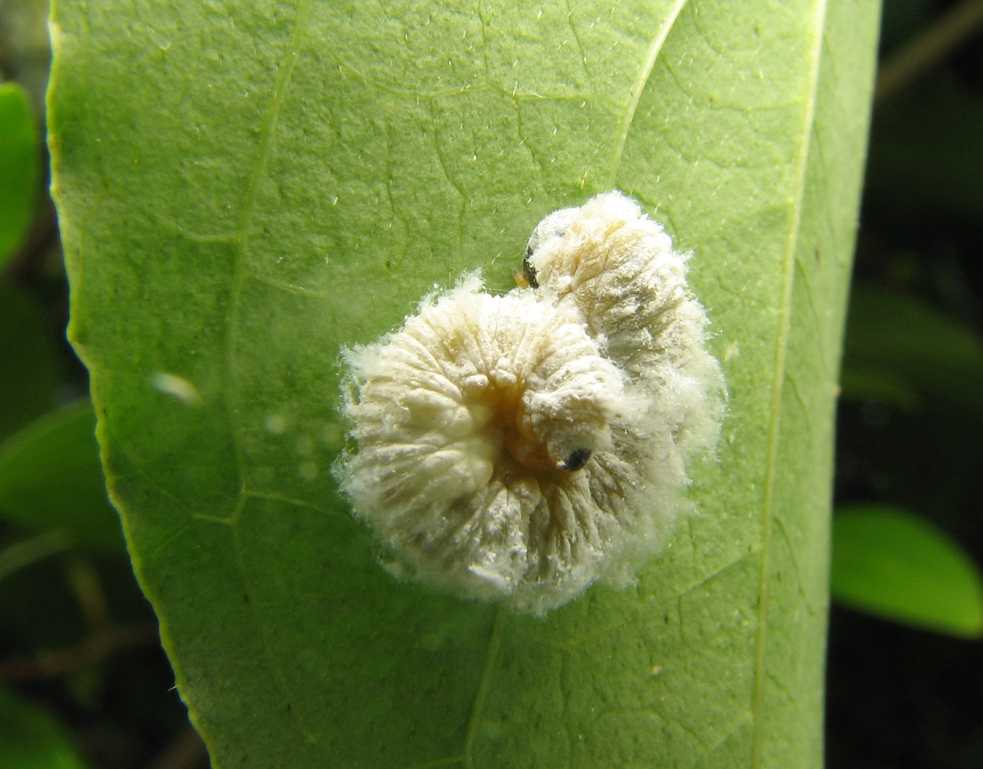 Larva of Macremphytus testaceus on dogwood (Cornus sp.) Size: 20 mm. Briar Bush Nature Center, Montgomery County, Pennsylvania, USA.